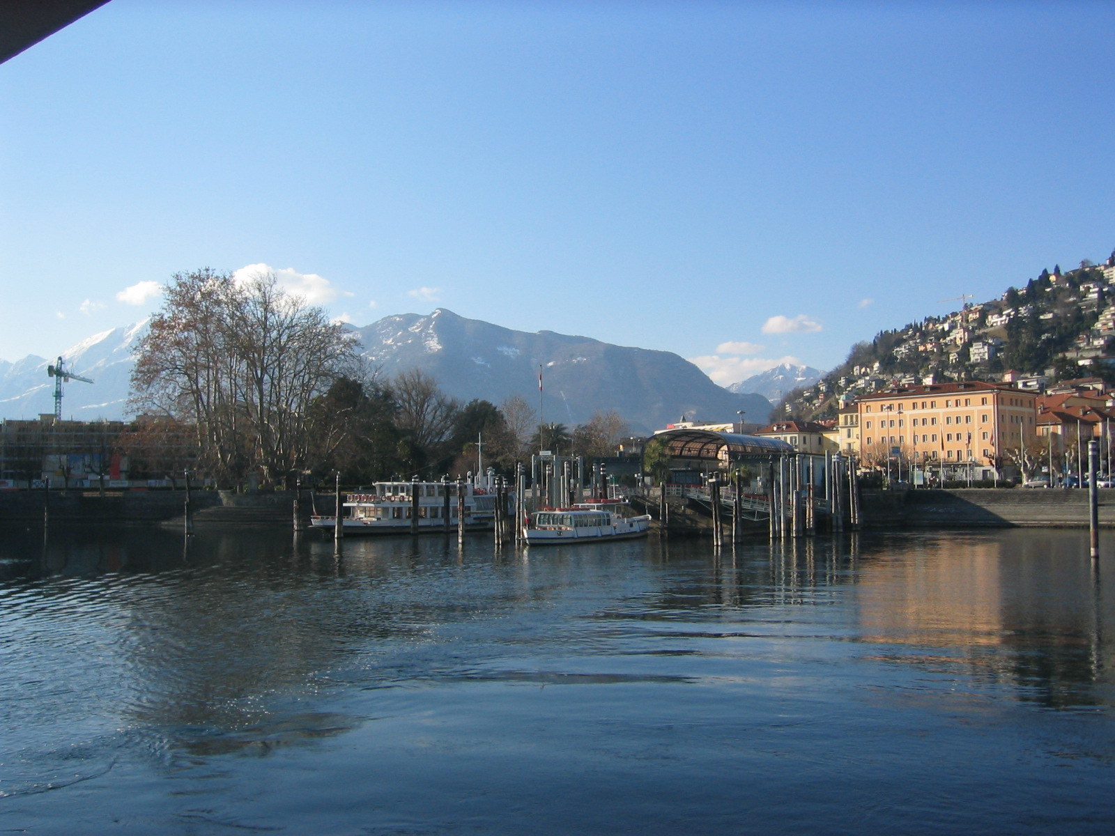 Port of Locarno on Lake Maggiore (Ticino, Switzerland)